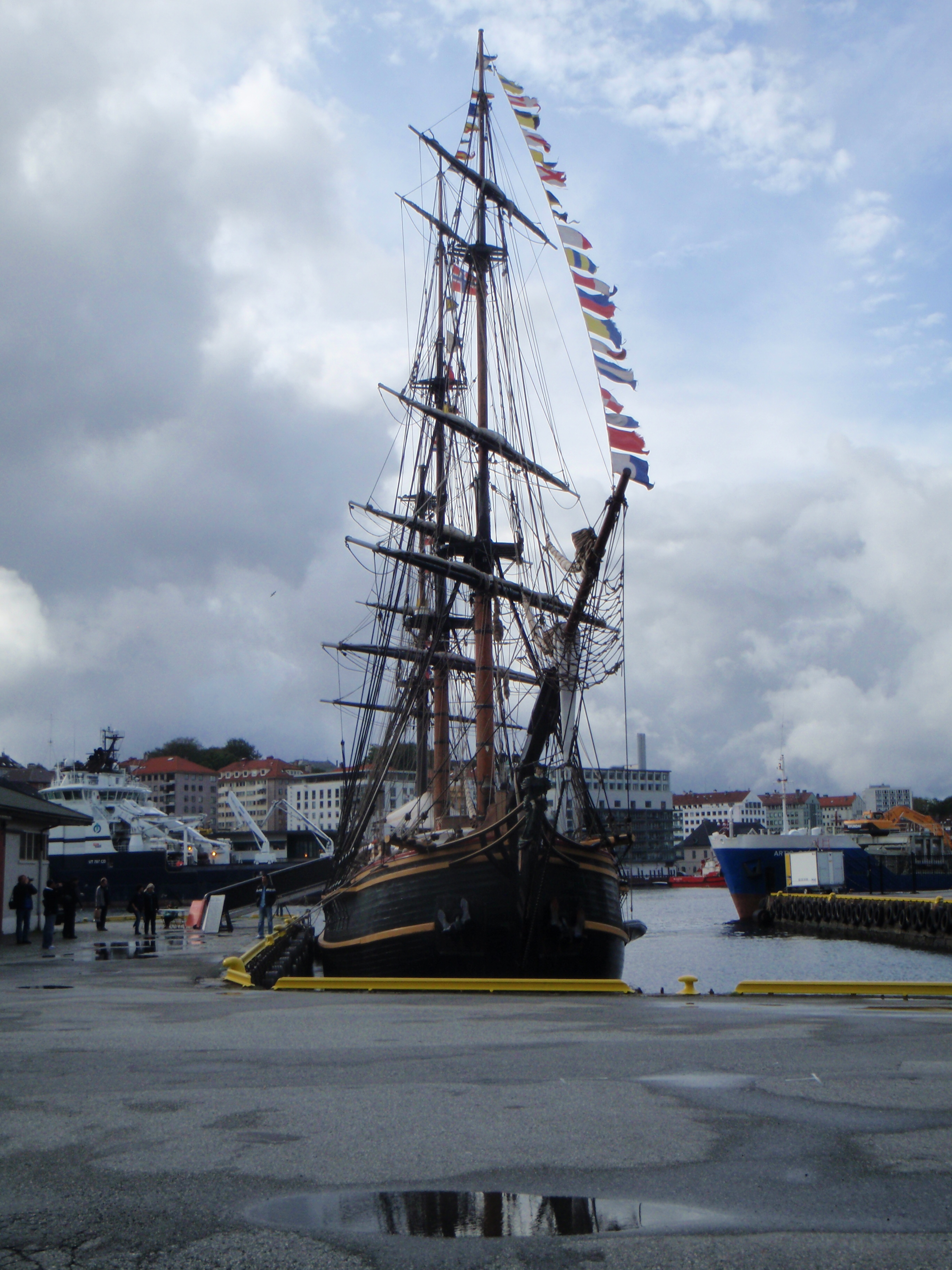 Replica of the famous sailship Bounty, visiting Bergen 2011. Lost and sunk later on